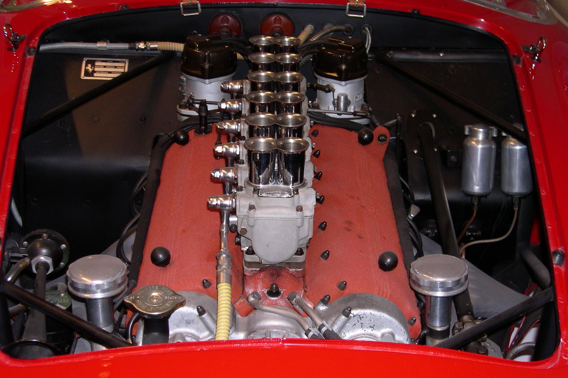 1958 Ferrari 250 Testa Rossa 250 Colombo Testa Rossa engine Scaglietti-bodied 250 racer from the Ralph Lauren collection on display at the Boston Museum of Fine Arts. Photo taken in 2005. Source: Photo by User:Sfoskett